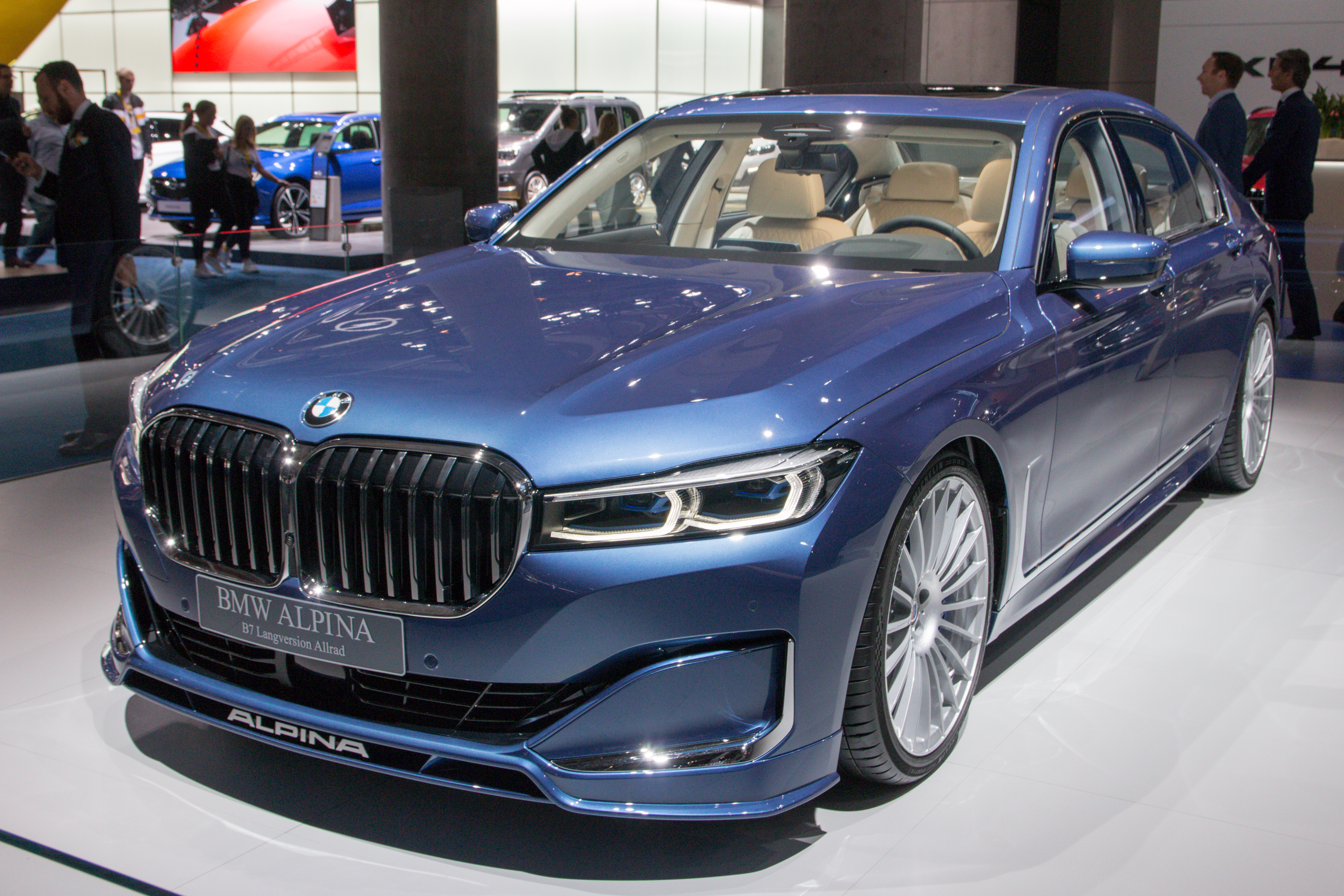 Alpina B7 (G12) Langversion Allrad